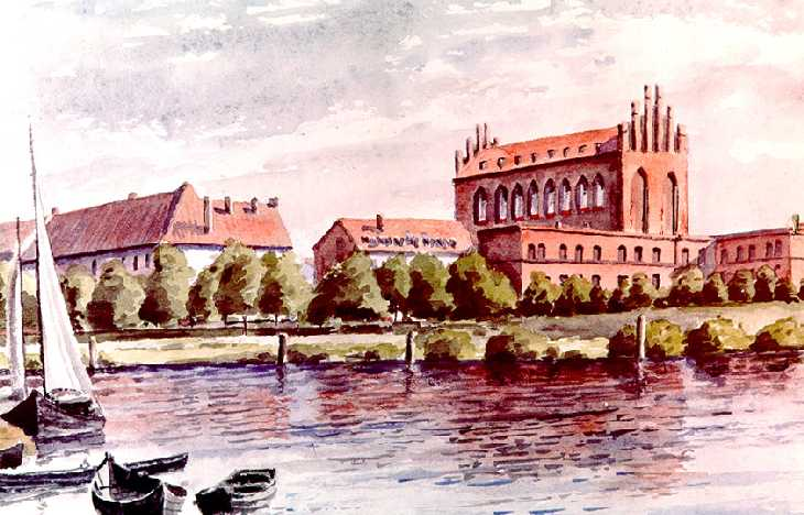 Gvardeisk (before 1945 Tapiau)